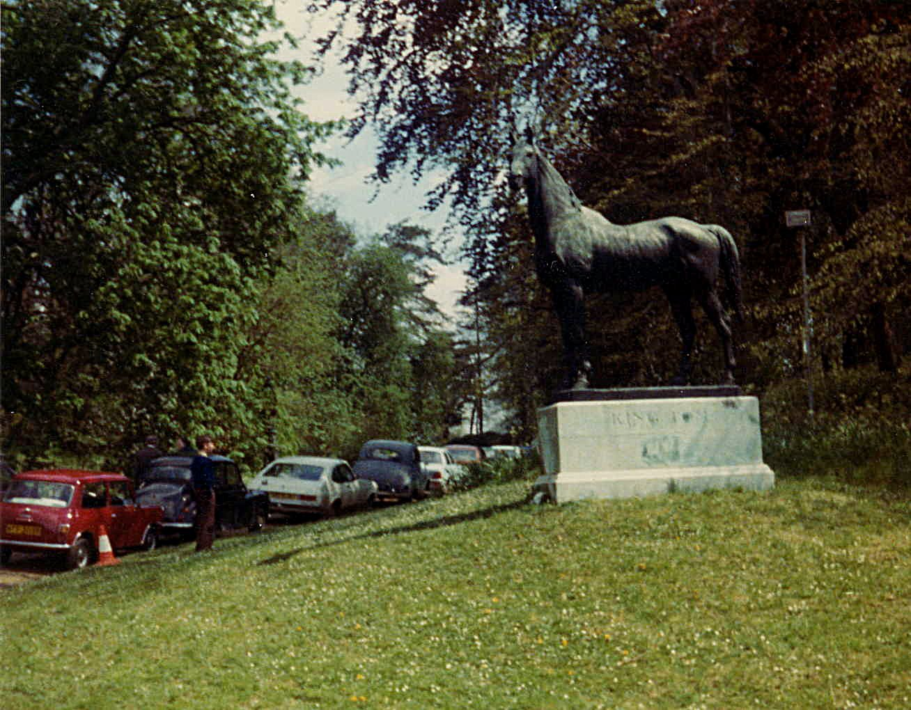 Statue of King Tom, a race horse.